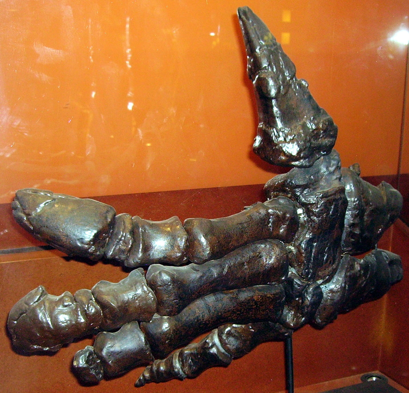 Hand of Iguanodon shown in the Natural History Museum.